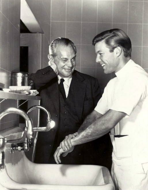 Publicity photo announcing the premiere of the television program Dr. Kildare. Raymond Massey is Dr. Gillespie and Richard Chamberlain is Dr. Kildare, shown scrubbing up.